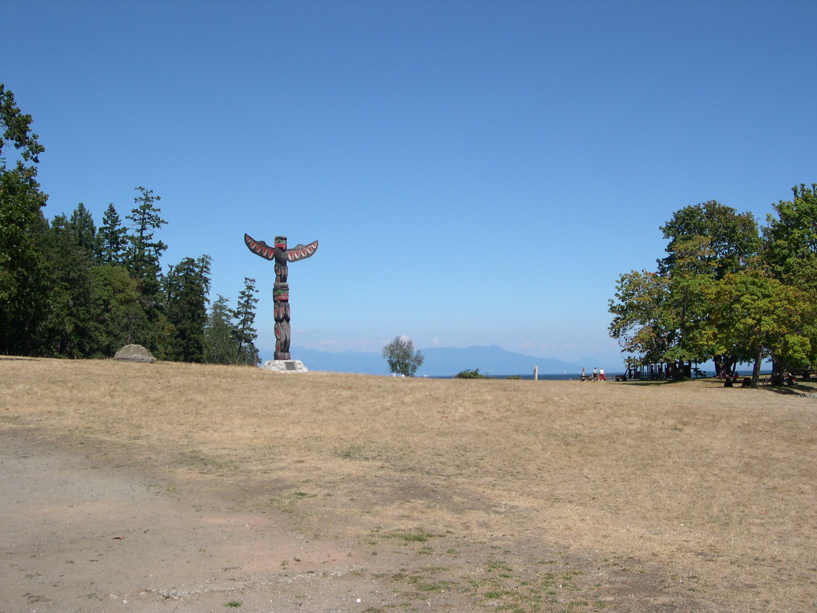 A totem pole in a field on Newcastle Island, British Columbia, Canada.Newcastle Island